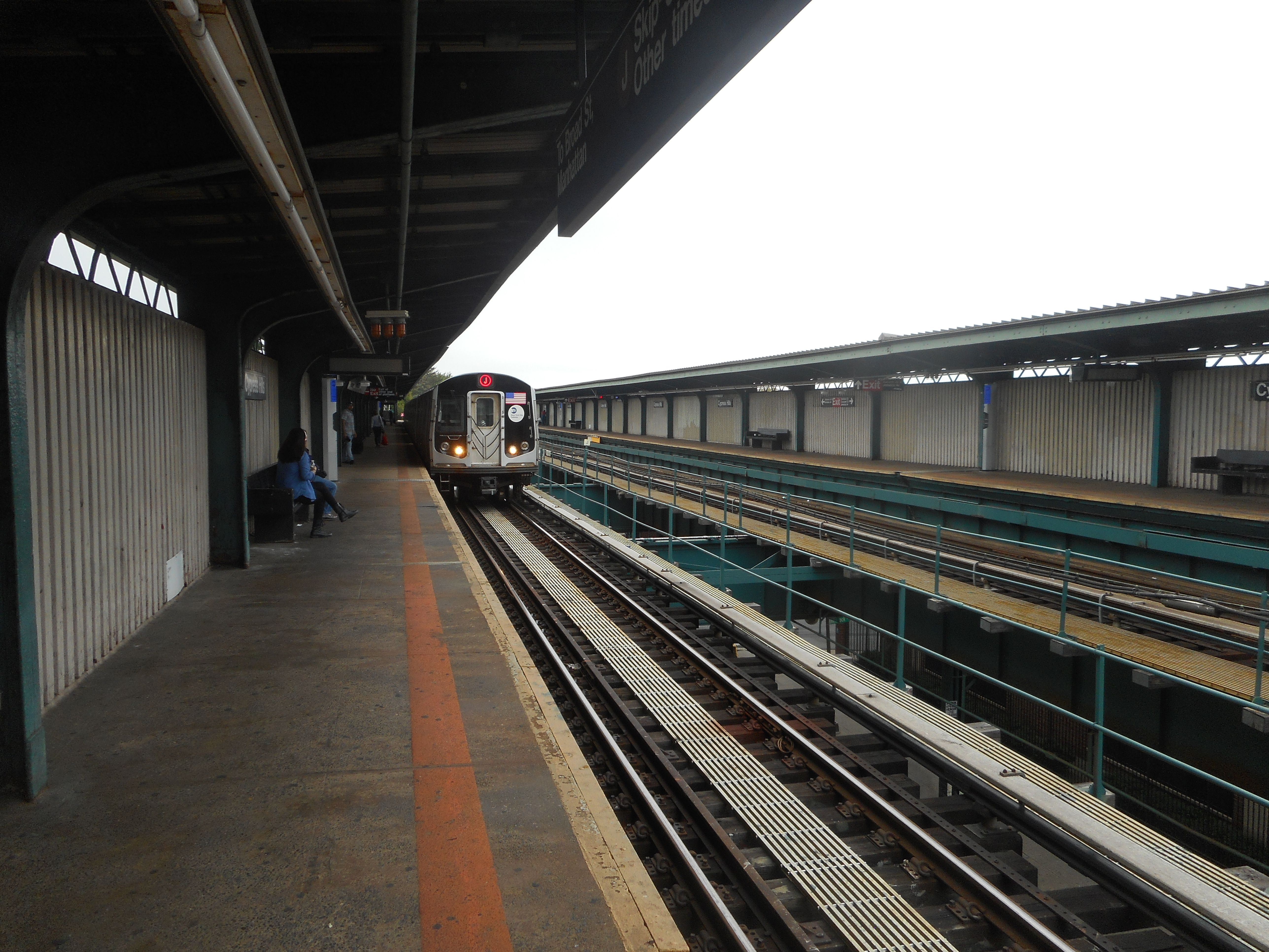 A Lower Manhattan-bound R160 train arrives at the Cypress Hills Elevated Railway station on the BMT Jamaica Line in Cypress Hills section of Brooklyn, New York City. Further details, and a possible rename to come later, hopefully.